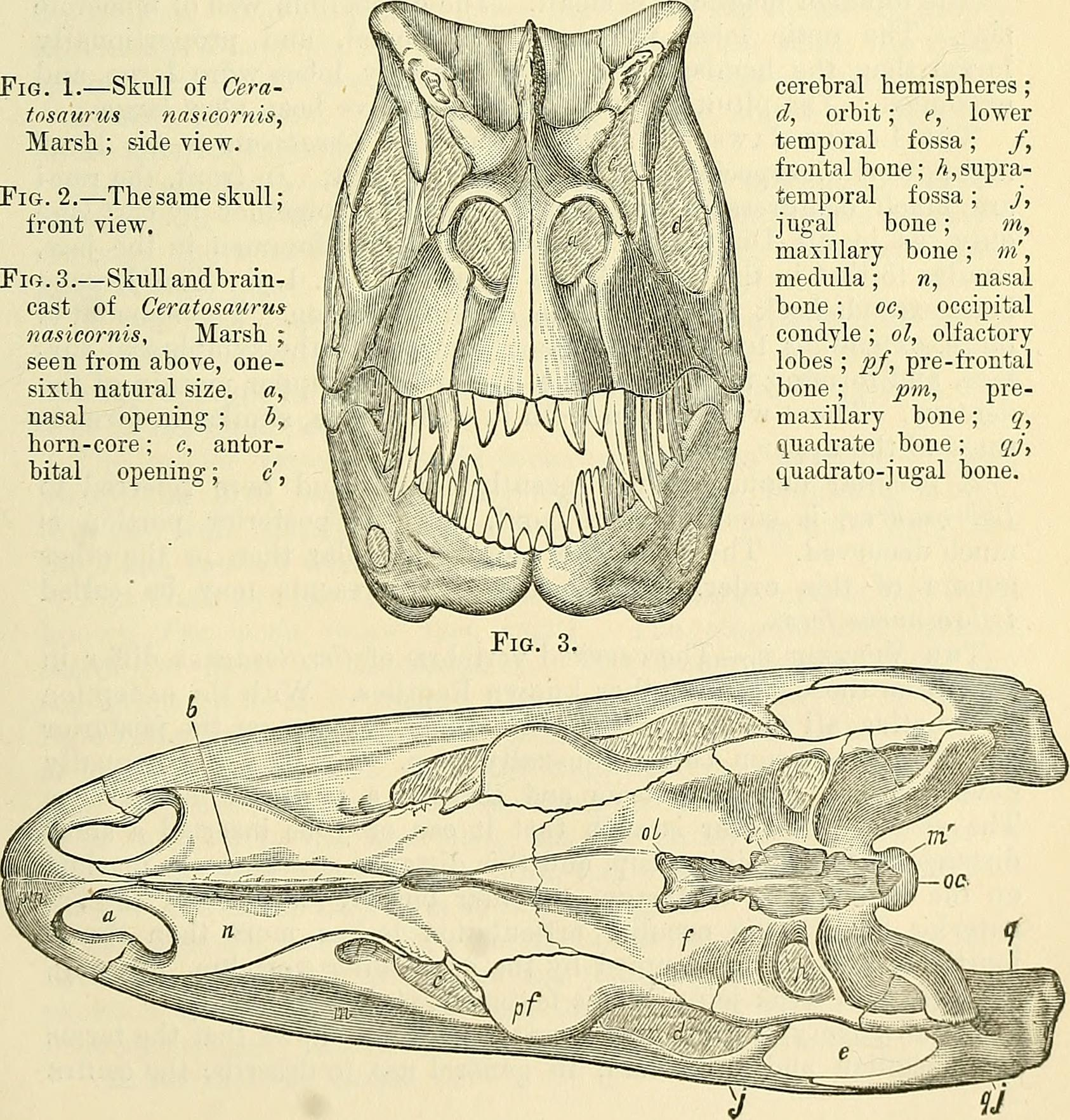 Title: Geological magazine Year: 1884 (1880s) Authors: Woodward, Henry, 1832-1921, ed Subjects: Publisher: London (etc.) Cambridge University Press Text Appearing Before Image: Fig. 2. Fig. 1.—Skull of Ceratosauius nasicornis.Marsh; side view. Fig. 2.—The same skull ;front view. Fig. 3.—Skull andhrain-cast of Ceratosaurwinasicorms^ Maish ;seen from above, one-sixth natural size, a,nasal opening ; b,horn-core; c, antor-hital opening, c, cerebral hemispheres;d, oibit; e, lowertemporal fo&sa; f,frontal bone; A, supra-temporal fossa; j,)ugal bone; in,maxillary bone; m,medulla; n, nasalbone; oc, occipitalcondyle; ol, olfactorylobes ; pf, pre-trontalbone; pm, pre-mixiUaiy bone; q,ijuadiate bone, qj,quadrato-jugal bone. Text Appearing After Image: 256 Prof. 0. C. Marsh—J!^eio Jurassic Dinosaurs. margin of the pterygoid is united the strong, curved, transversebone, whicli projects downward below the border of the upper jaws,as shown in Figure 1, t. There is a very short, thin, columella, which below is closelyunited to the pterygoid by suture, and above fits into a smalldepression of the post-frontal. The palatine bones are well developed and, after joining thepterygoids, extend forward to the union with the vomers. Thelatter are apparently of moderate size. The pre-sphenoid is well developed, and has a long pointedanterior extremity. The whole palate is remarkably open, and the principal bonescomposing it stand nearly vertical, as in the Sauropoda. The Brain.—The brain in Ceratosaiirus was of medium size, butcomparatively much larger than in the herbivorous Dinosaurs. Itwas quite elongate, and situated somewhat obliquely in the cranium,the posterior end being inclined downward. The position of thebrain in the skull, and its